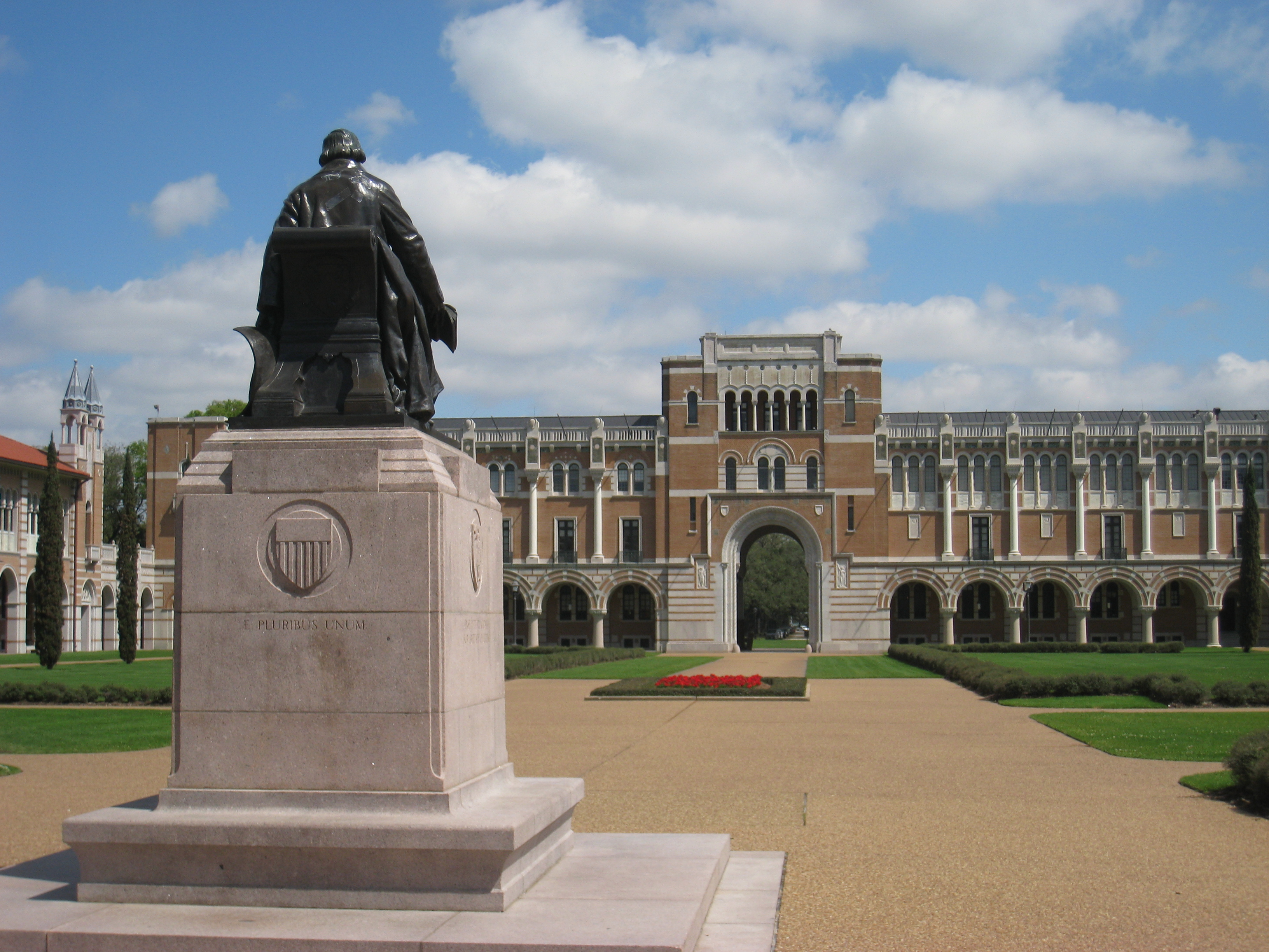 Rice University, Houston, Texas, USA - Statue of founder William Marsh Rice with Lovett Hall in background.